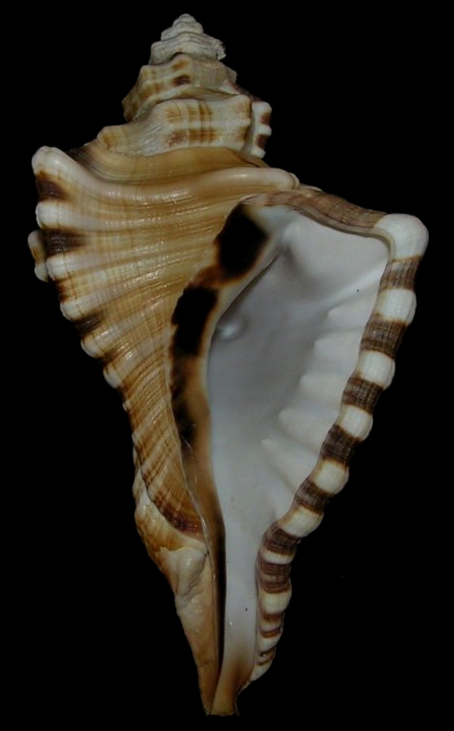 Photograph of the seashell Cymatium ranzanii (Bianconi, 1850)[1] - underside view / Origin of image: Own collection. Mozambique. Nacalos Bay Biloy.